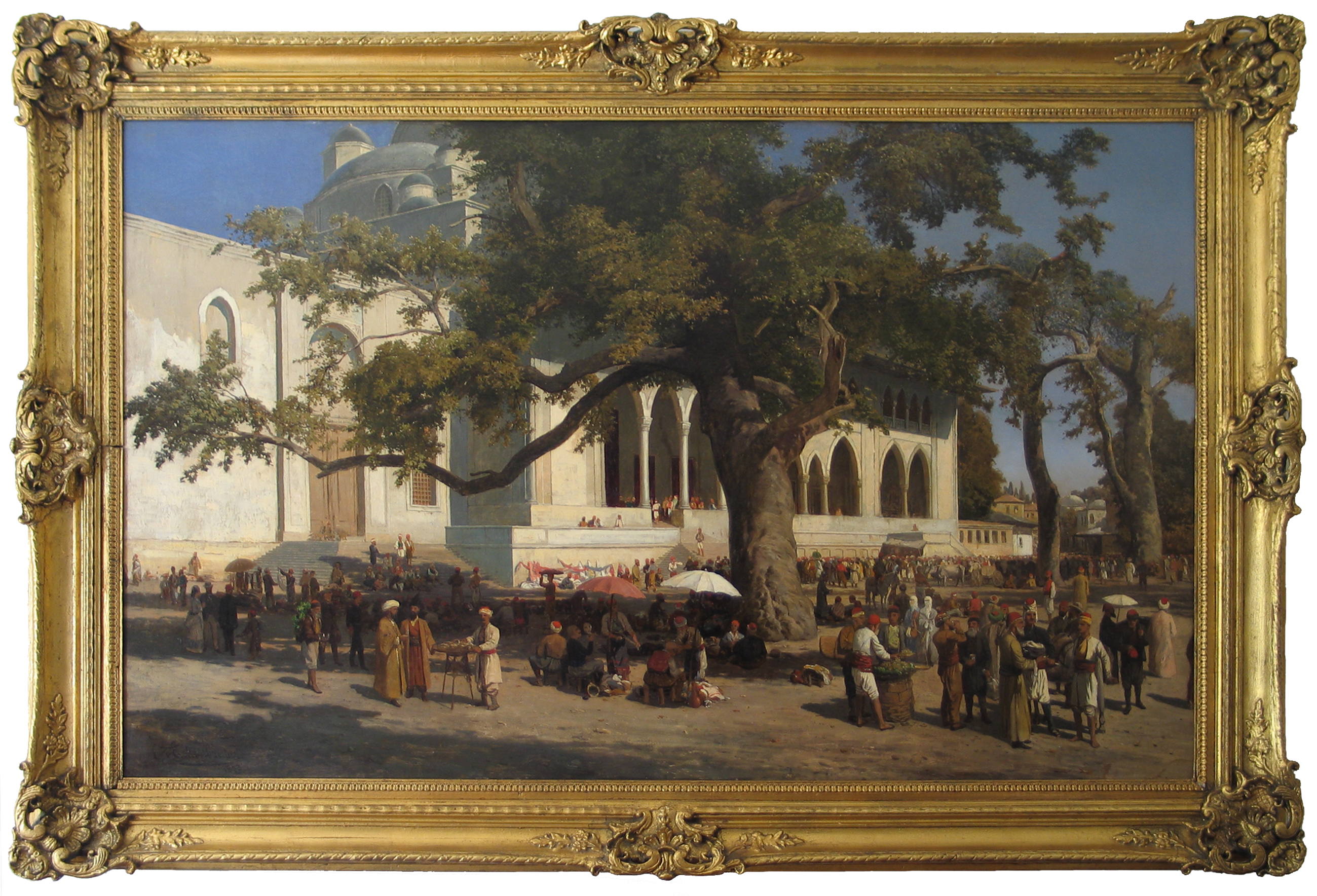 A busy market in the courtyard of the New Mosque, Istanbul